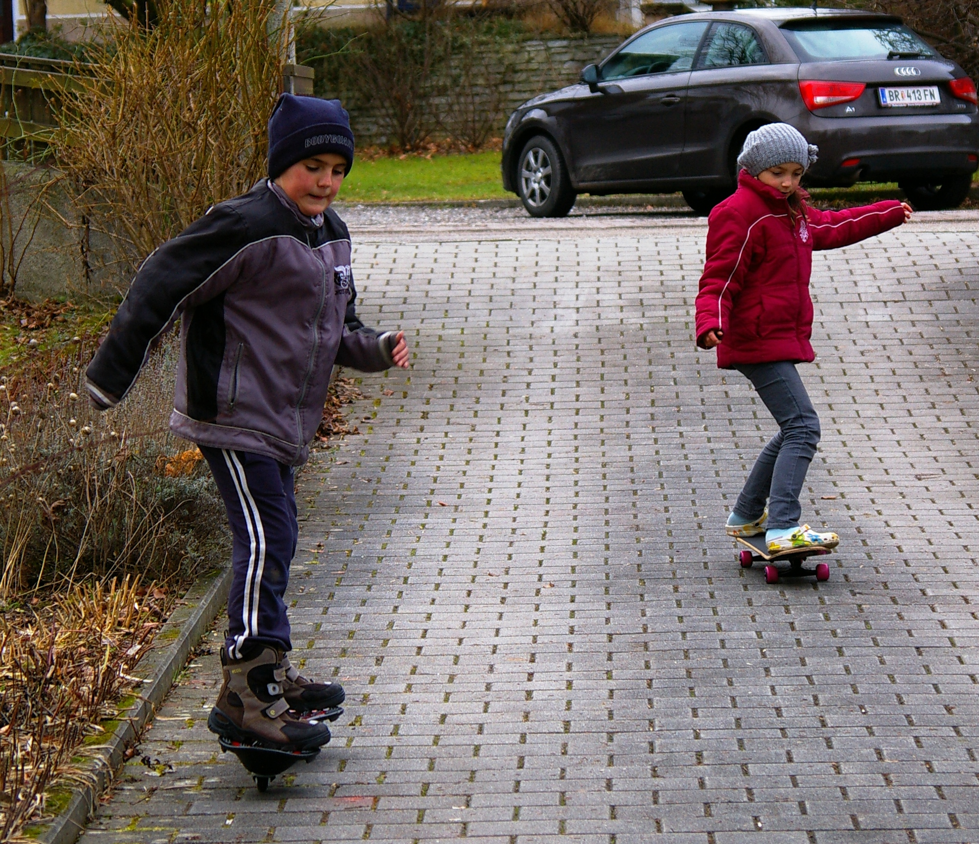 Boy and girl on skateboards (Christmas presents)